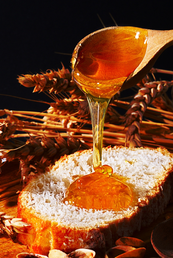 Honey